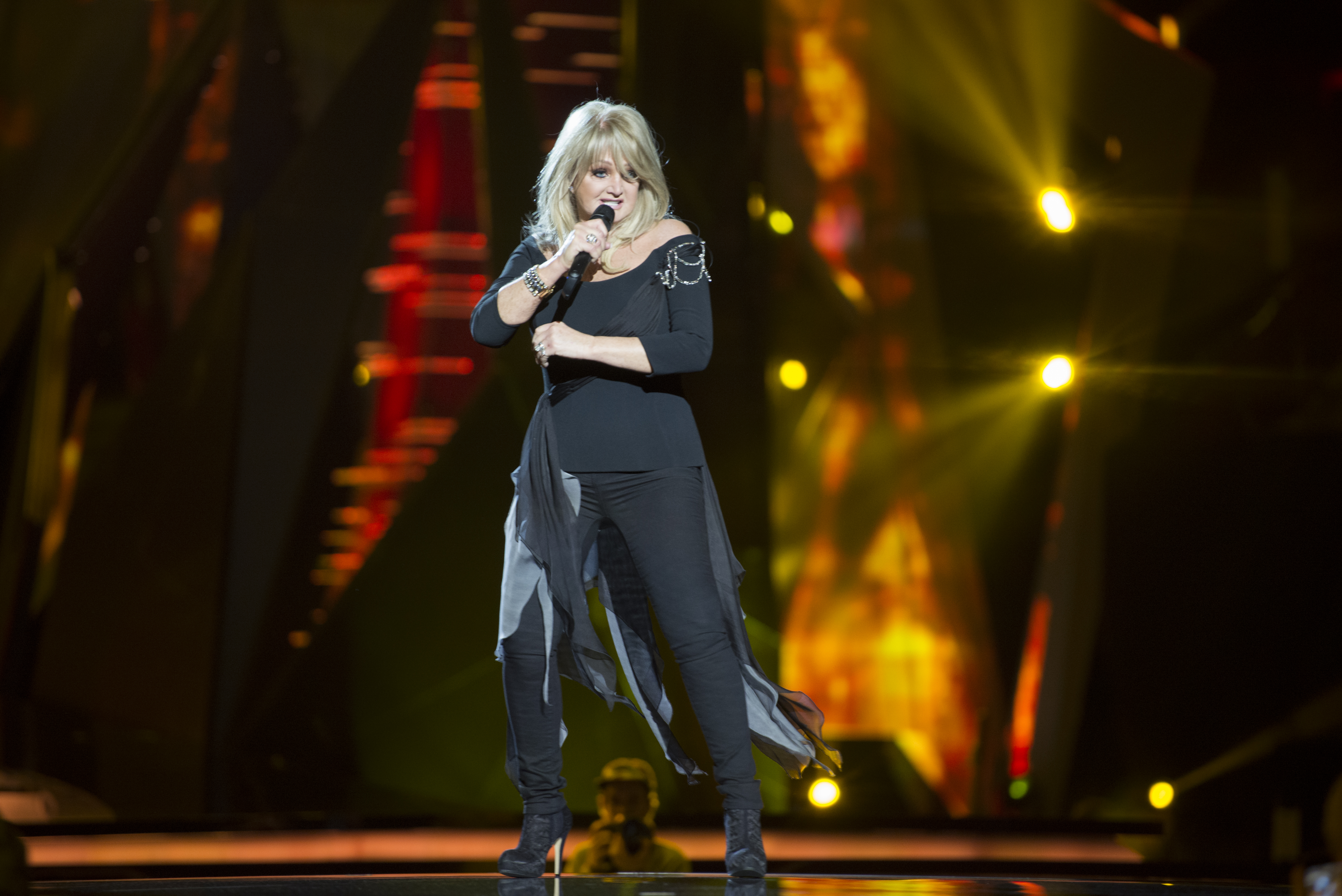 Bonnie Tyler representing United Kingdom with the song "Believe in Me" during the first dress rehearsal for "the Big Five" in the Eurovision Song Contest 2013 in Malmö. (Help translate this text)